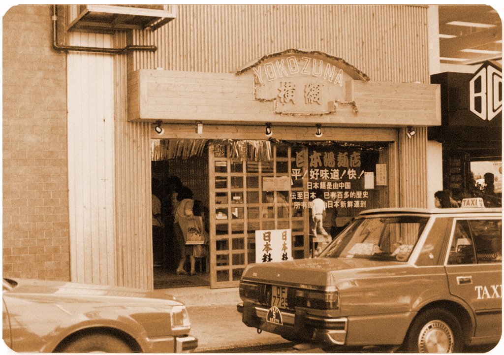 Hong Kong's Japanese ramen shop "yokozuna" Store in 1987